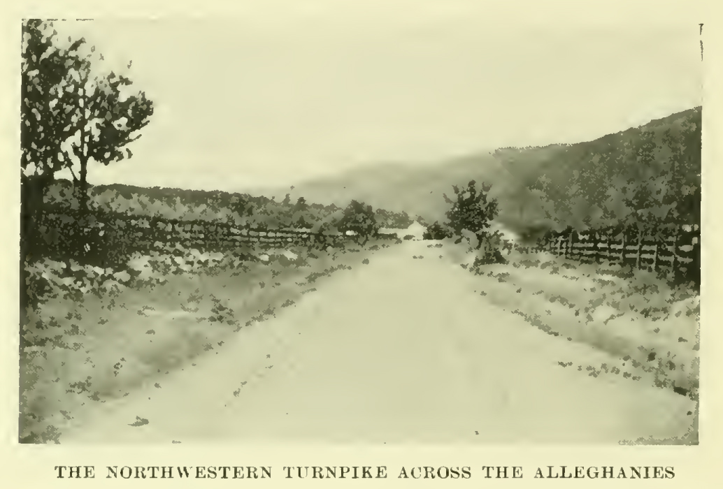 Photograph of Northwestern Turnpike in WV that appeared in Baltimore & Ohio Railroad Company's Book of the Royal Blue, October 1908, Vol. 12 No. 01, Page 10